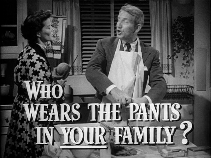 Screenshot from the trailer for the film Adam's Rib (1949)